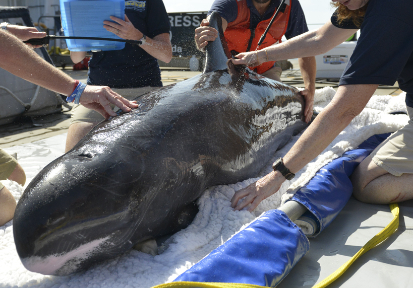 Teams from the Institute of Marine Mammal Studies keep a pygmy killer whale hydrated while they prep it for release into the Gulf of Mexico, July 11, 2016. Personnel from National Oceanic and Atmospheric Administration, Navy Marine Mammal program and U.S. Coast Guard Cutter Cypress also participated in the mammal’s release. U.S. Coast Guard photo by Petty Officer 3rd Class Lexie Preston.